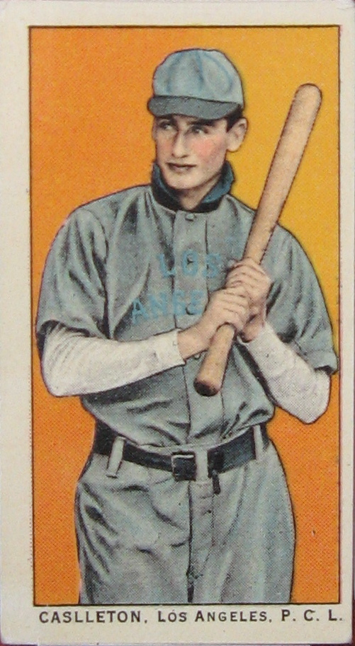 Pacific coast league baseball card for Royal Eugene Castleton. This an error card. The last name is misspelled as Caslleton. Correct Spelling should be Castleton.